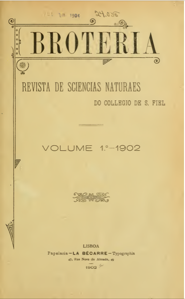 Cover of the first edition of the scientific journal "Brotéria - Revista de Sciencias Naturaes do Collegio de S. Fiel" - 1902